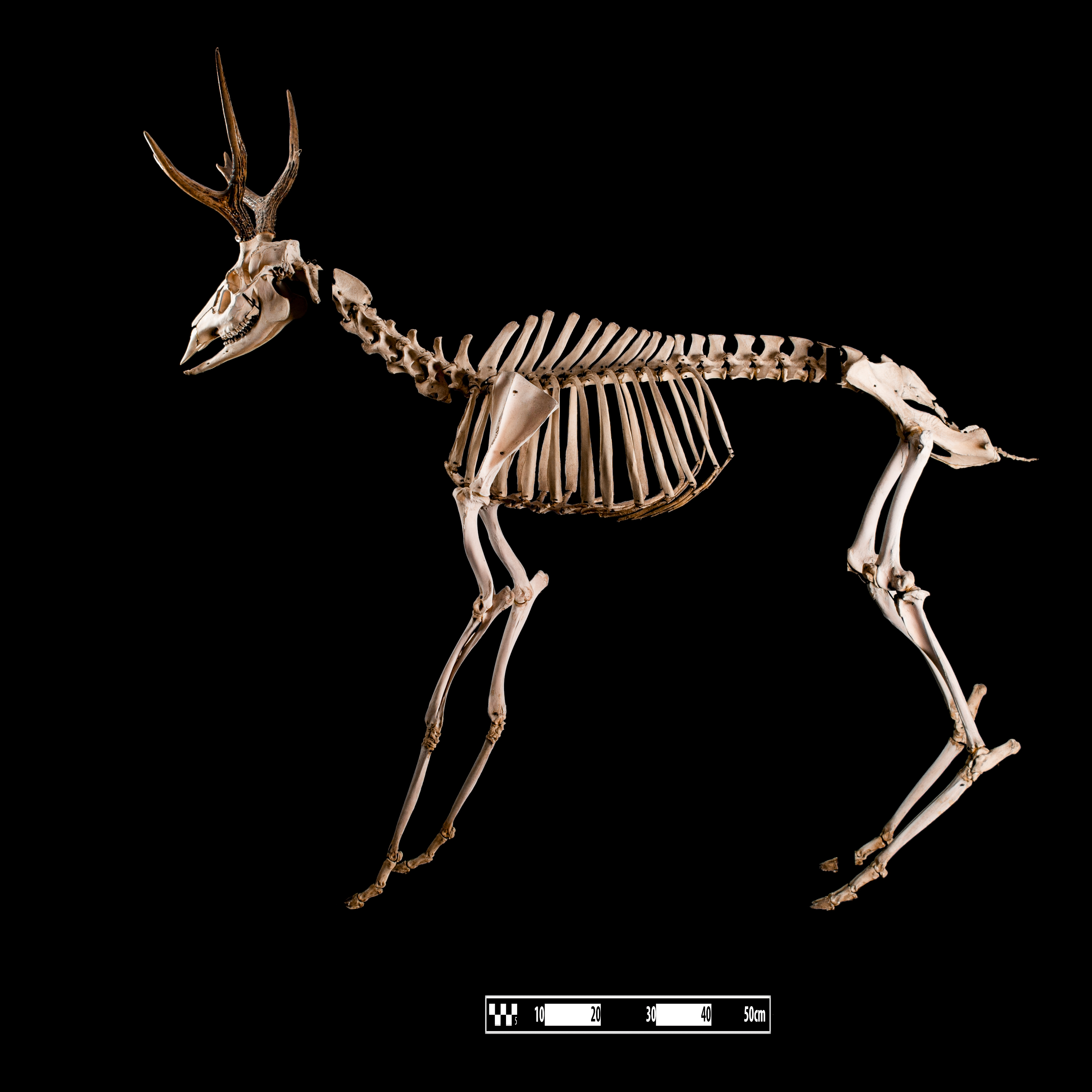 Specimen of Marsh deer skeleton prepared by the bone maceration technique and on display at the Museum of Veterinary Anatomy, FMVZ USP.